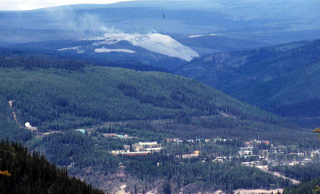 Author: Rae Brown Contact Author for Use Permissions.